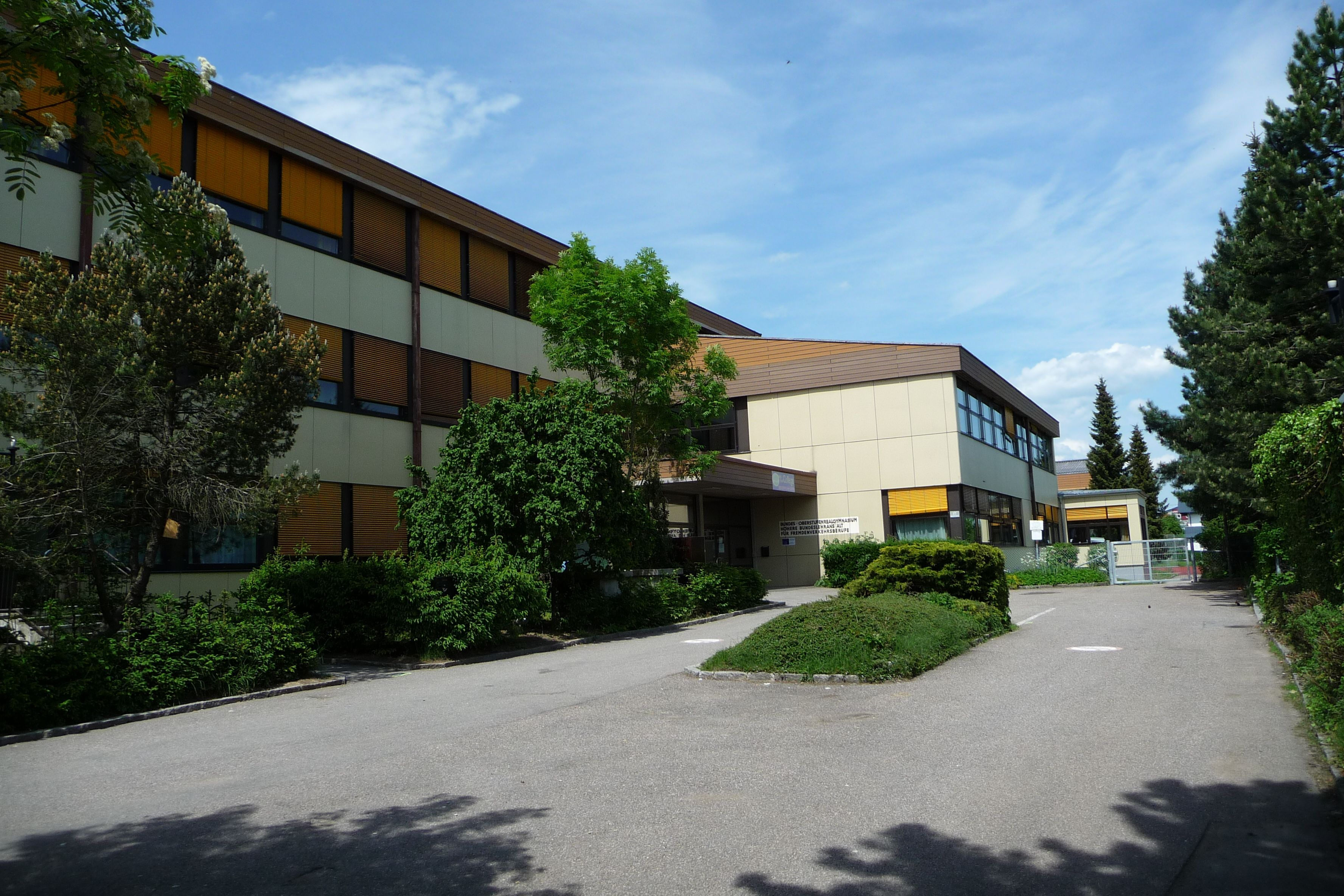 Schools in Bad Leonfelden